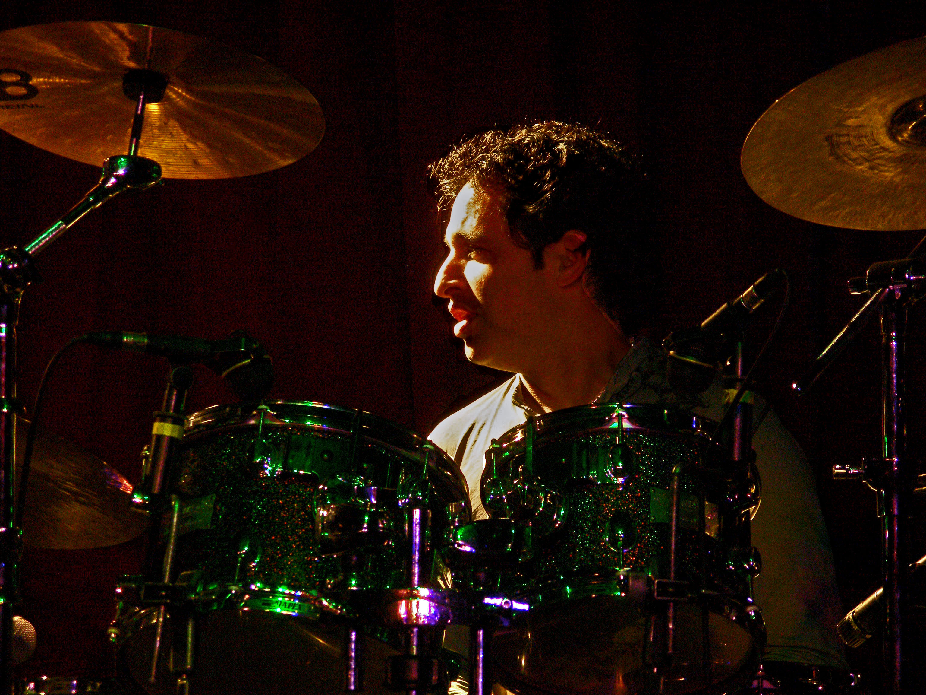 Nick D'Virgilio onstage with Spock's Beard at BB Kings, April 27, 2007.